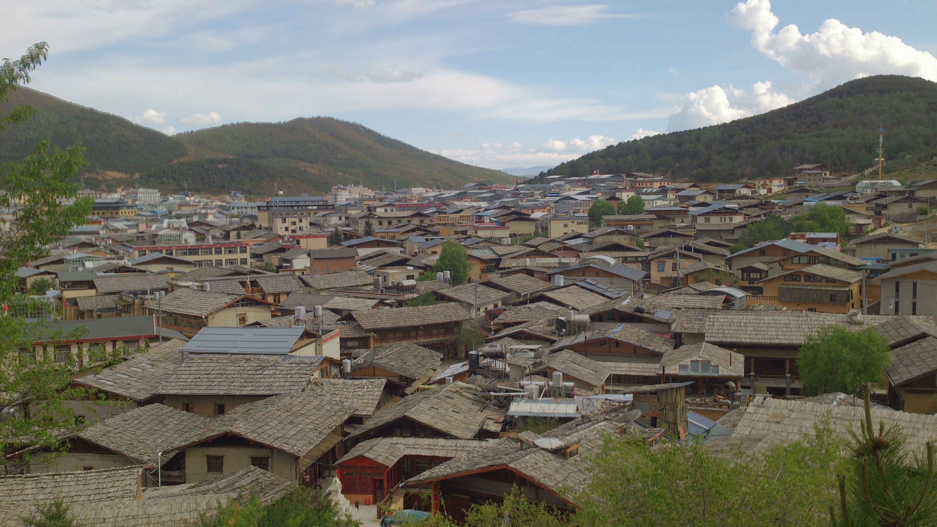 View of the roofs of Shangri-La, Yunnan, China.